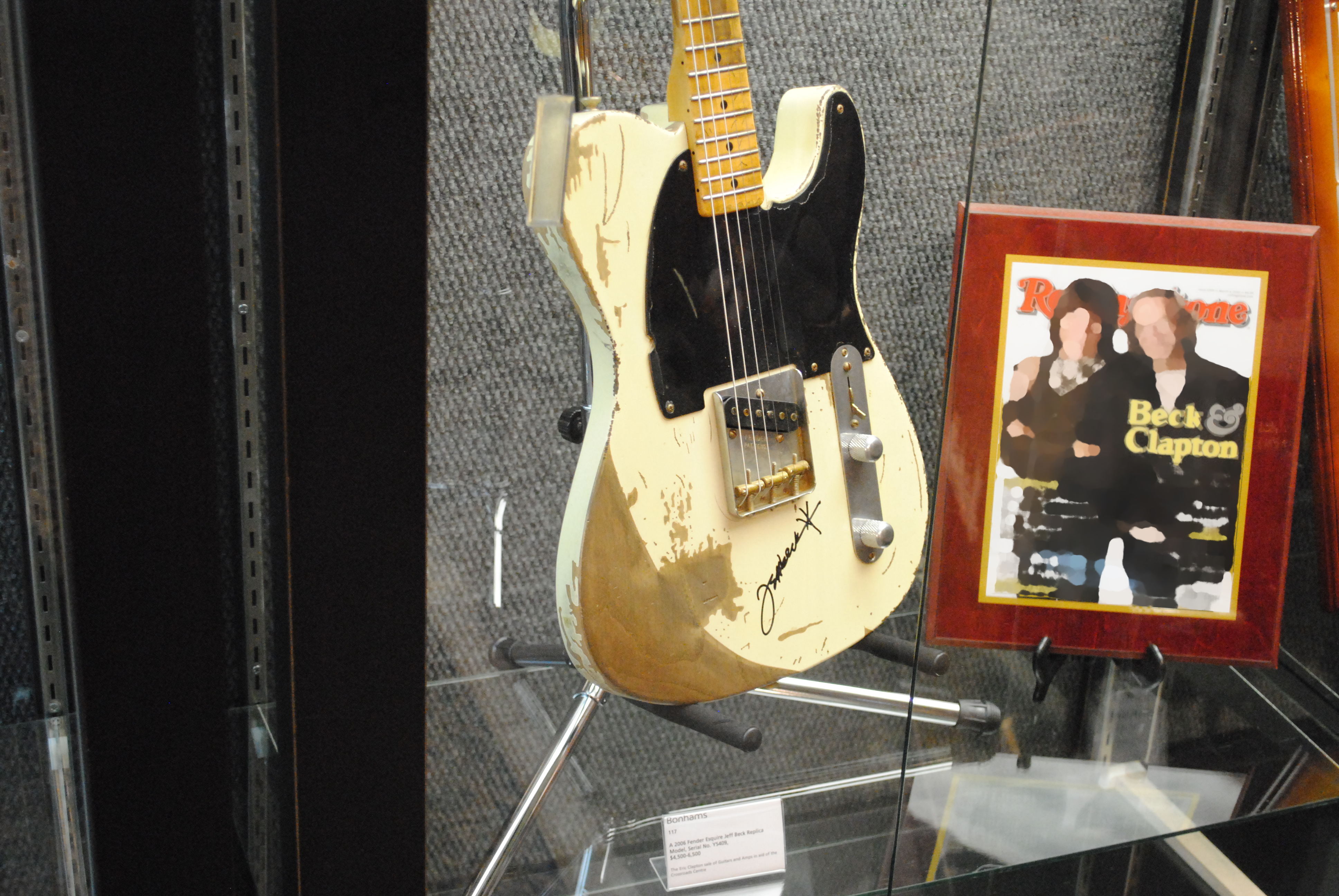 A 2006 Fender Esquire Jeff Beck Replica Model, Serial No. YS409, Custom Shop Tribute Series. 9 Mar 2011 13:00 EST New York, The Eric Clapton sale of Guitars and Amps in aid of the Crossroads Centre. Bonhams.